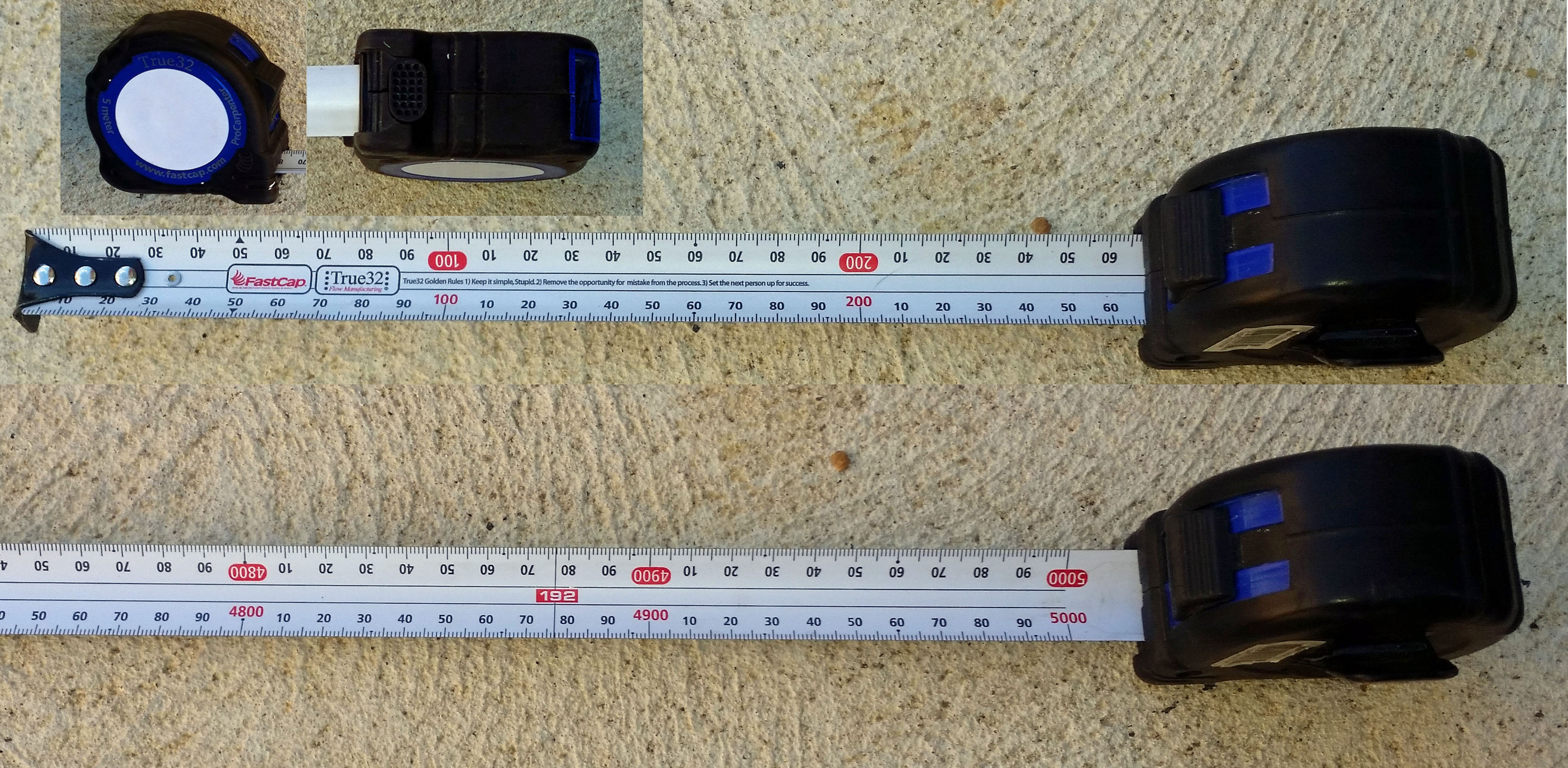 A US made 5 metre measuring tape with markings only in millimetres. This is described as a "Reverse Measuring Tape" since the measurements can be read from right to left just as well as they can be read when the tape is used from left to right. In addition, the tape also has a "pad" (top left) for writing notes in pencil plus a built-in pencil sharpener.